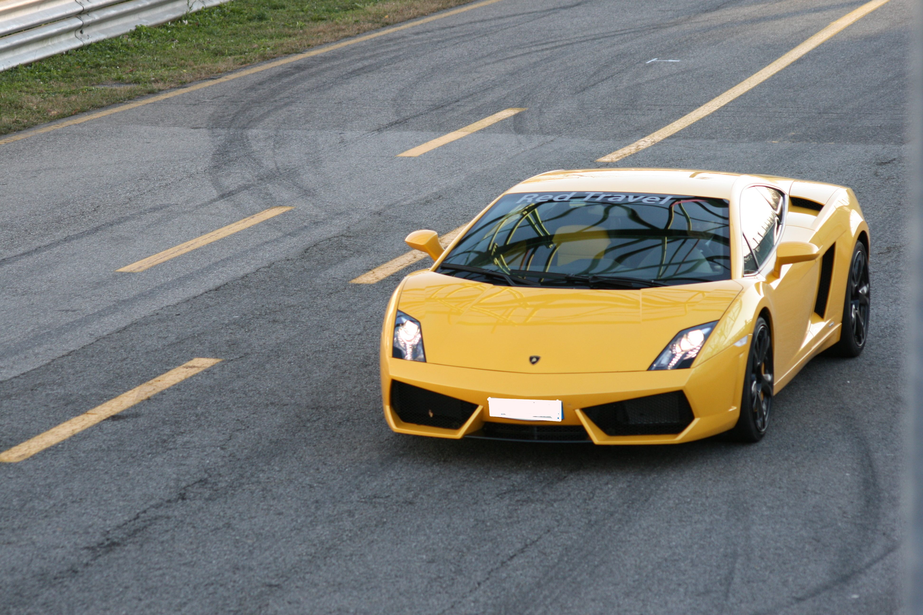 Lamborghini Gallardo LP560-4